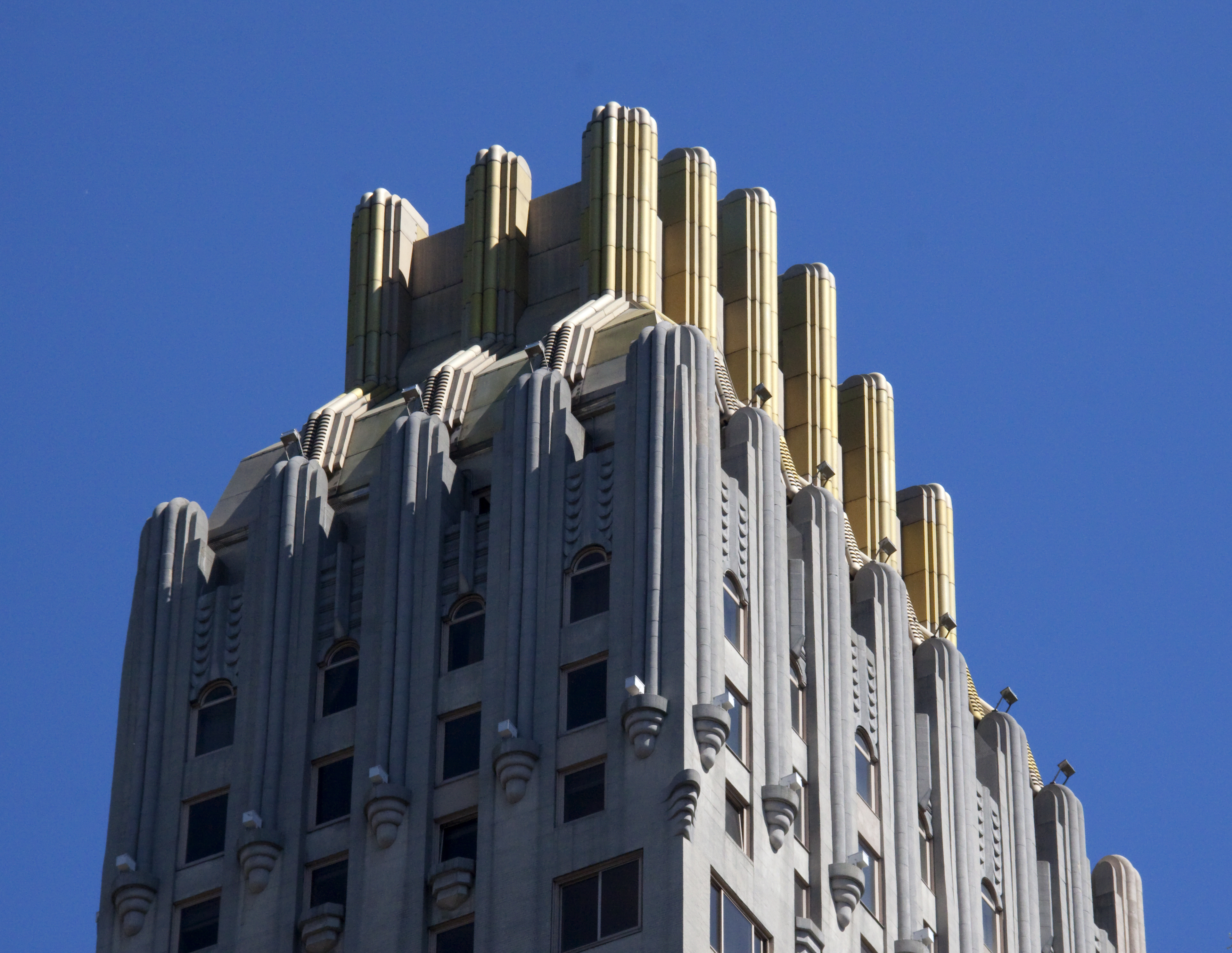 Trump Parc formerly the Barbizon Plaza Hotel 101 East 58th Street or 106 Central Park South